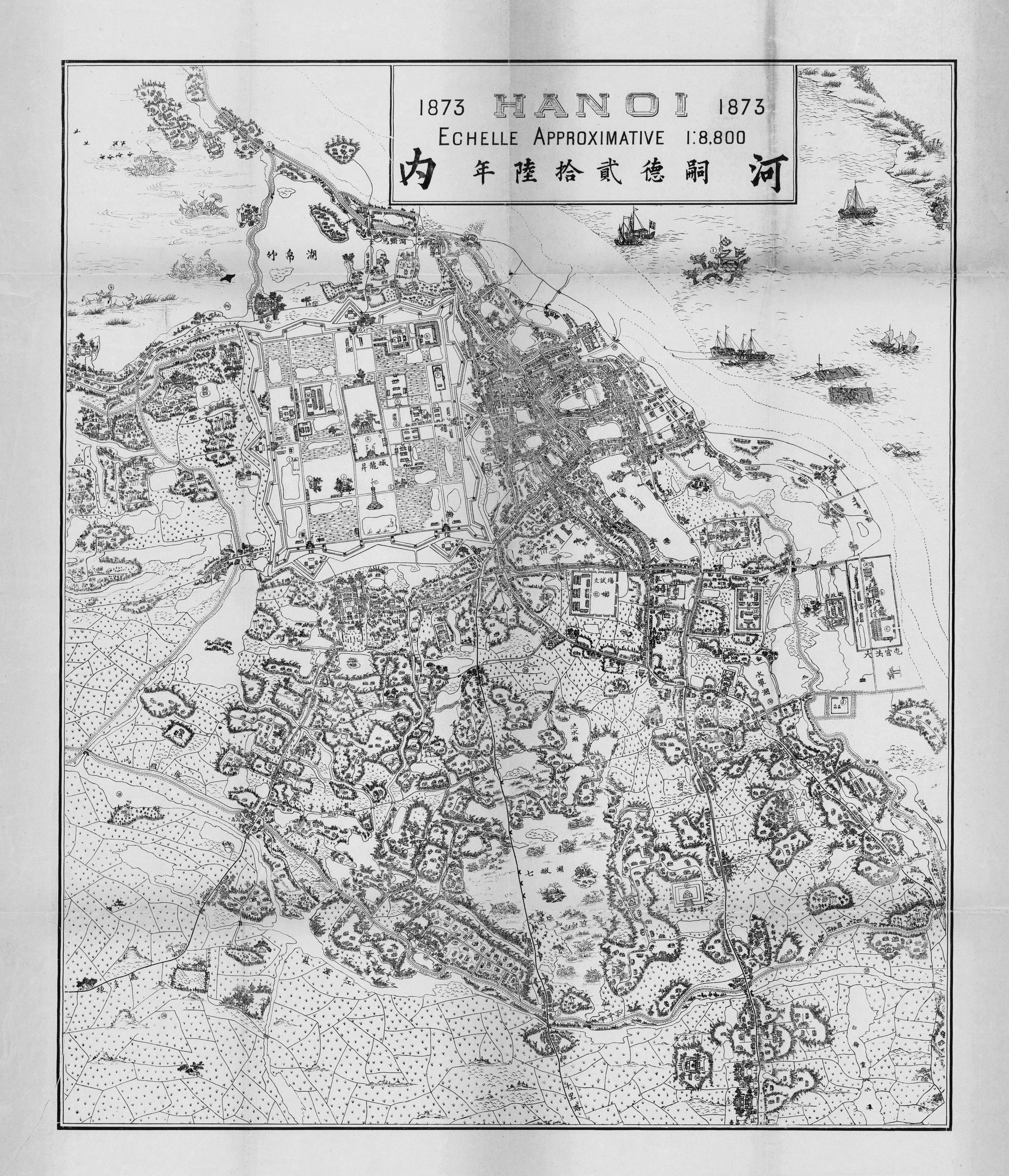 Map of Hanoi in 1873 drawn by Phạm Đình Bách in 1902.